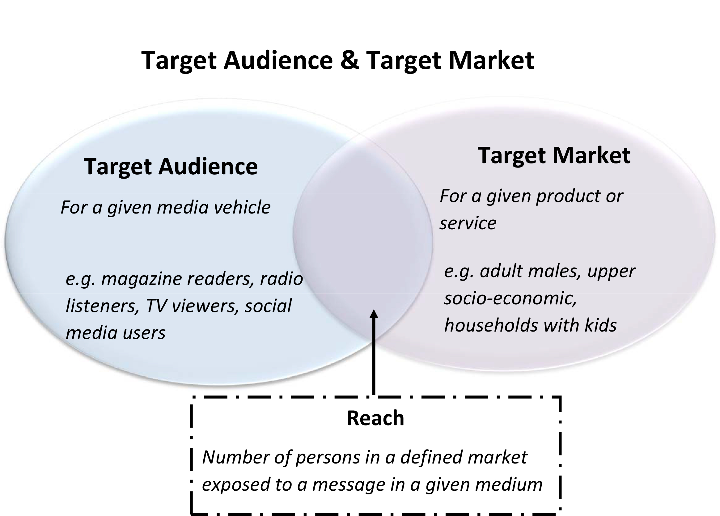 Created by me in Photoshop from concepts published on the Wikipedia 'target audience' page